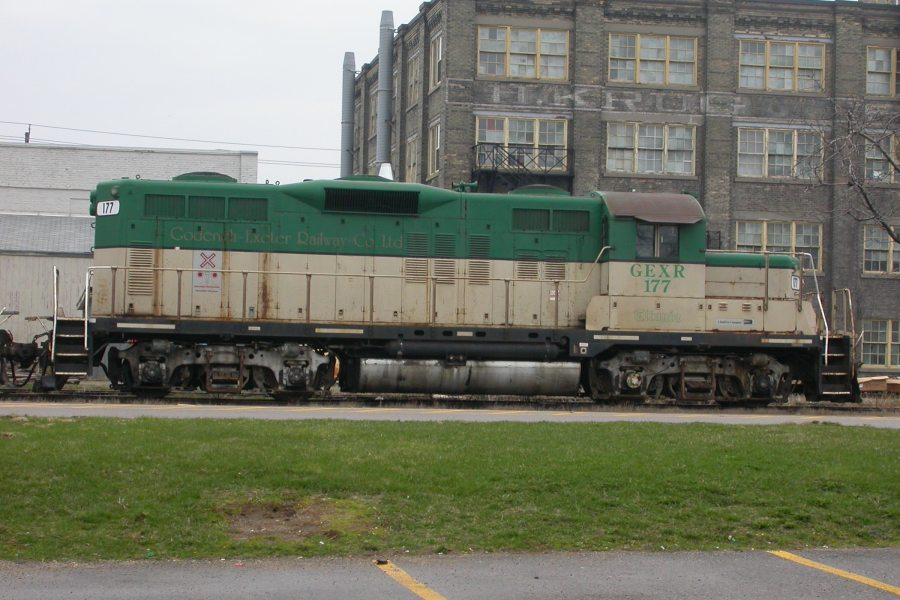 GEXR 177 at Kitchener Station, April 17, 2004. Photo 2004, by James Yolkowski (User:JYolkowski).